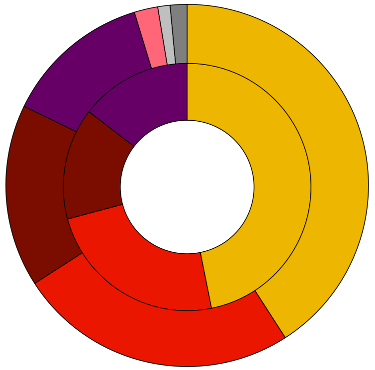 Pie chart for the Turkish general election of 2015. Votes won by parties on outer ring, seats won on the inner ring.